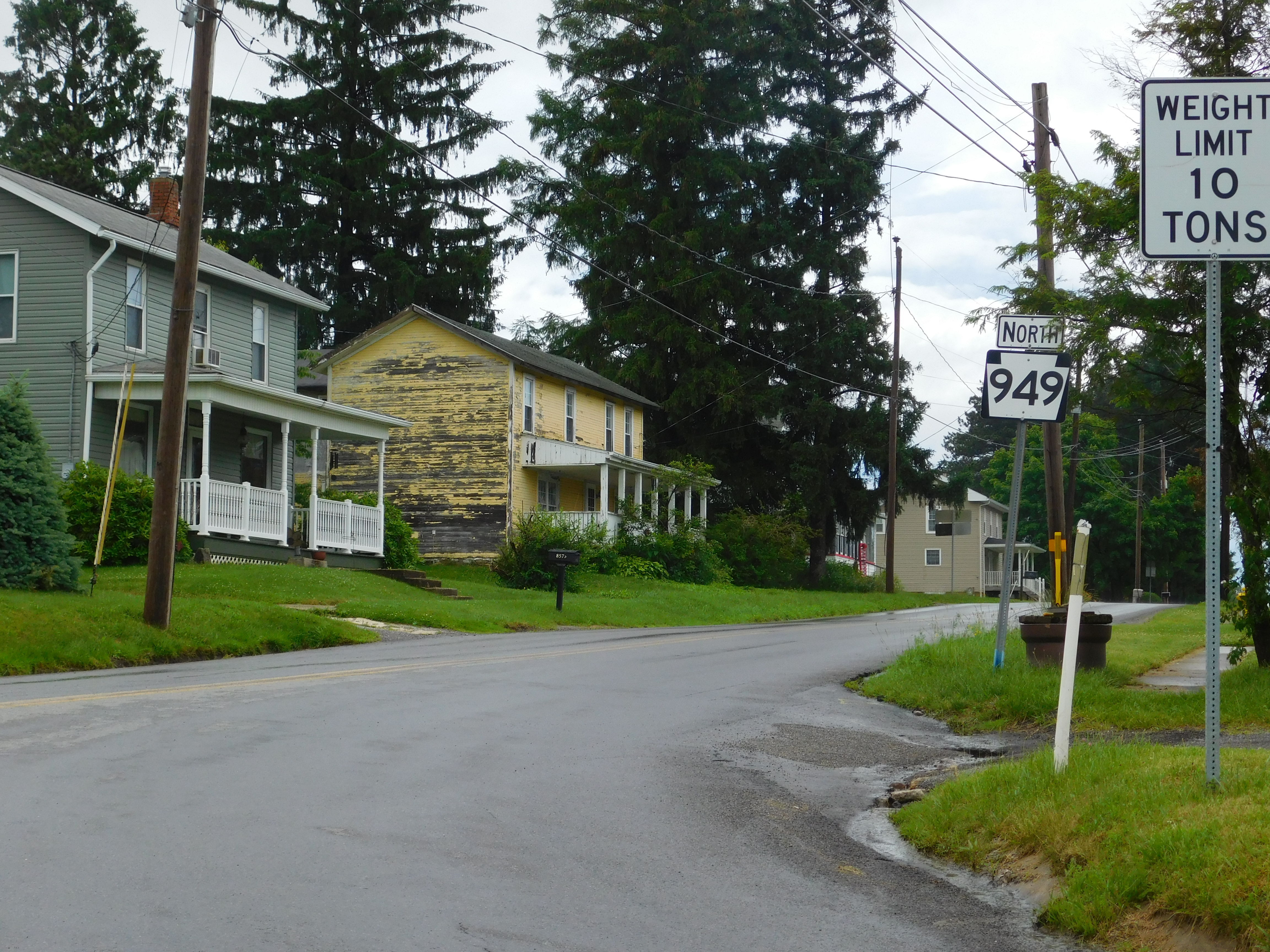 Pennsylvania Route 949 northbound in Sigel, Pennsylvania.